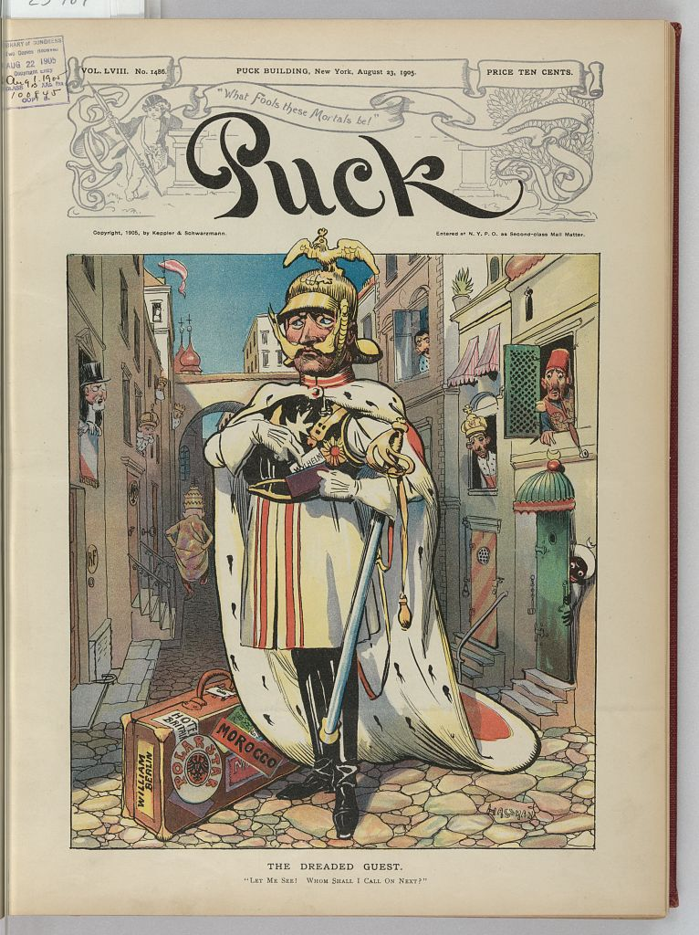 Title: The dreaded guest / Hassman̄. Abstract/medium: 1 photomechanical print : offset, color.